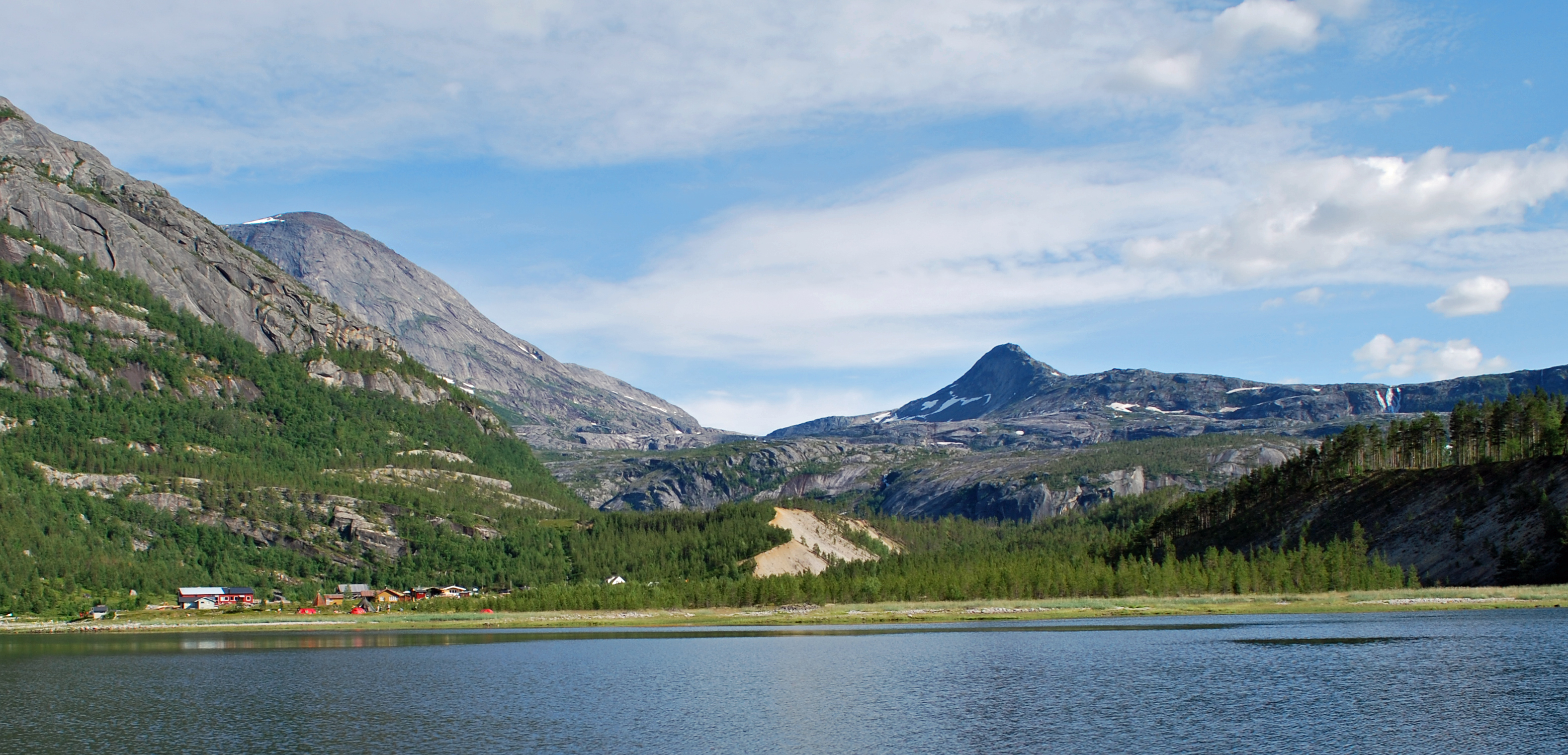 Hellemobotn, Tysfjorden, seen from Hellemofjorden